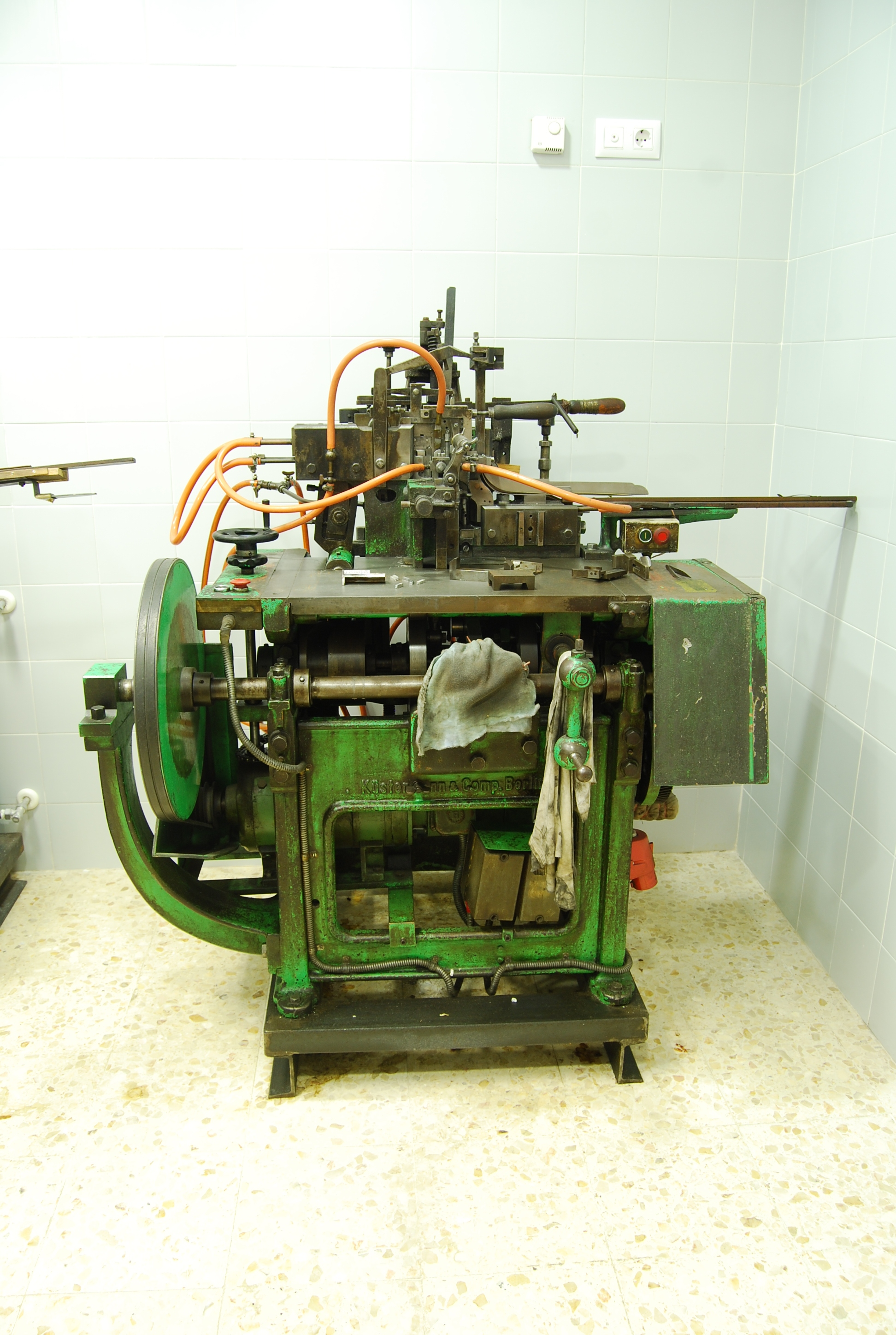 Impremta de la Diputació de Lleida